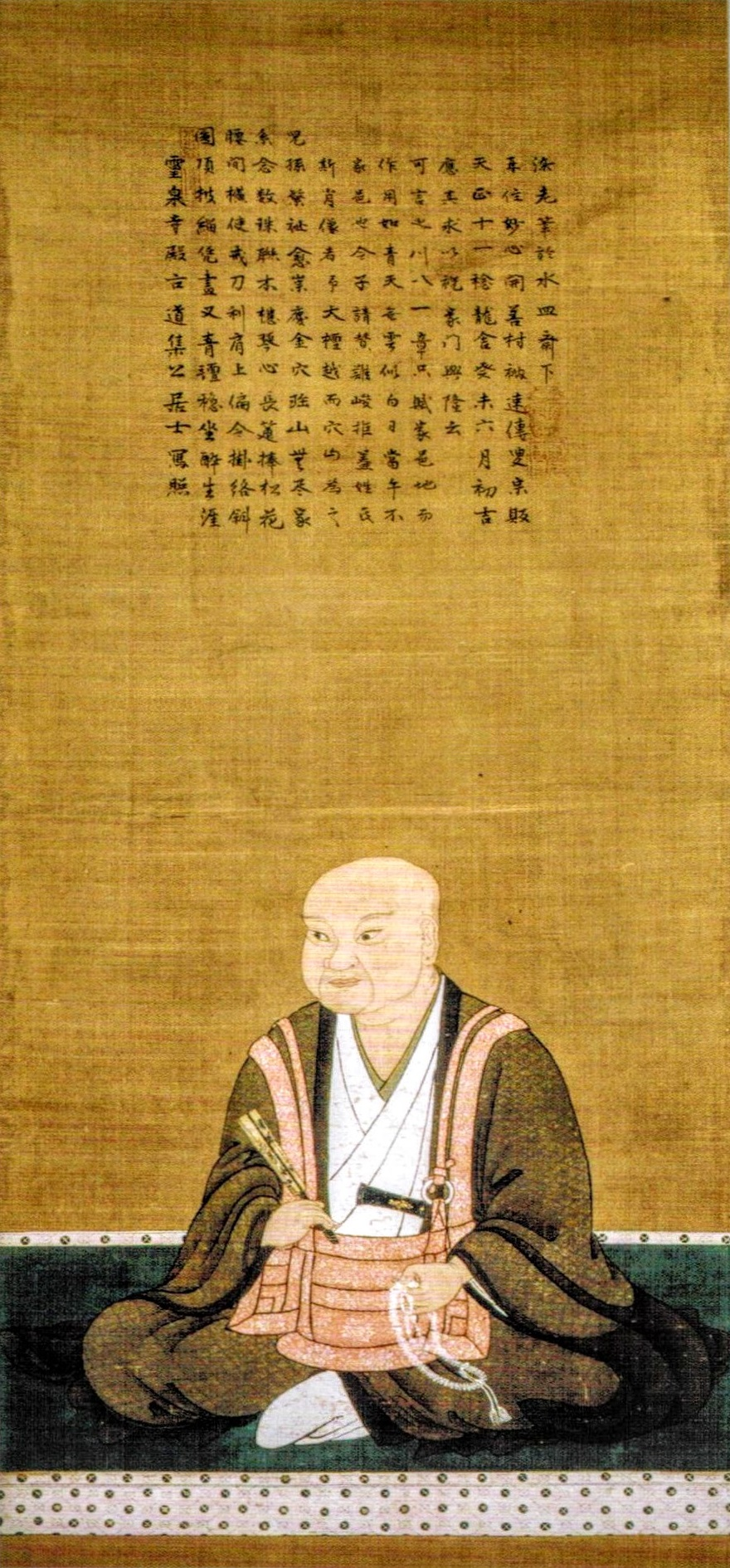 Portrait of Anayama Nobukimi (Nobutada) a.k.a. Baisetsu, painted in 1583, a collection of Reisenji Temple in Shizuoka, Shizuoka, Japan.